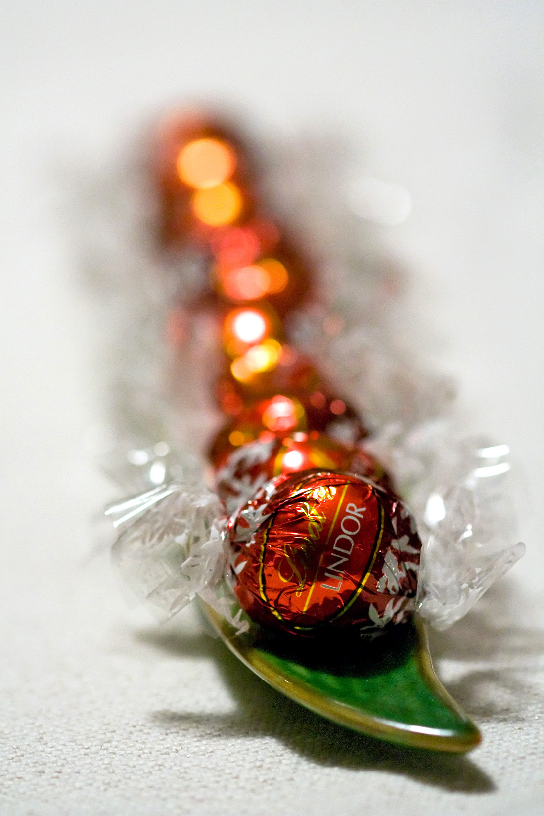 Sweet temptation. I can't decide if it's better On White or On Black .